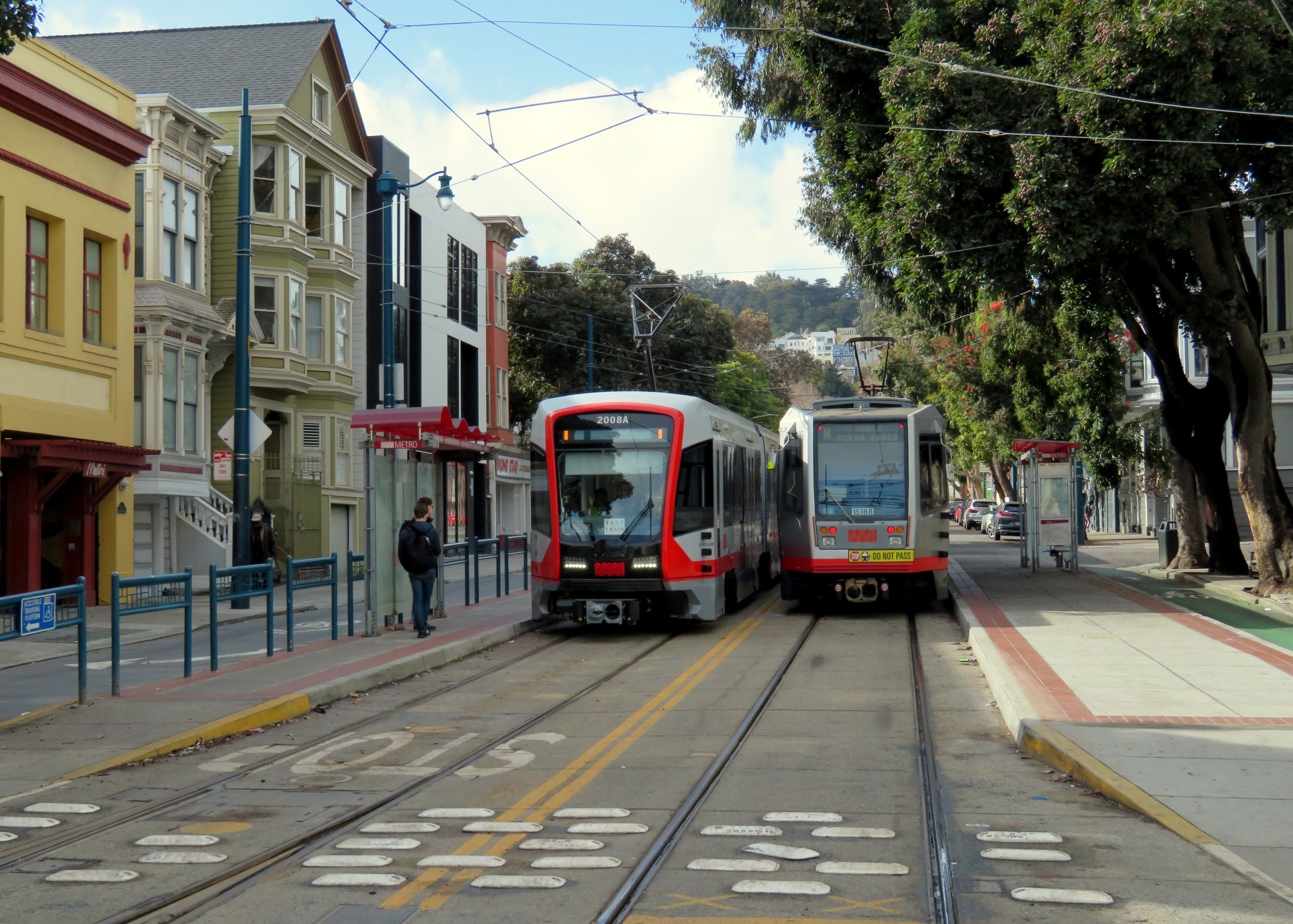 An outbound N Judah train passes Muni 2008 during testing at Duboce and Church station in January 2018